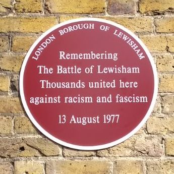 Maroon plaque erected on 13th August 2017 by Borough of Lewisham, on the corner of New Cross Road and Clifton Rise, to mark 40th anniversary of the Battle of Lewisham.